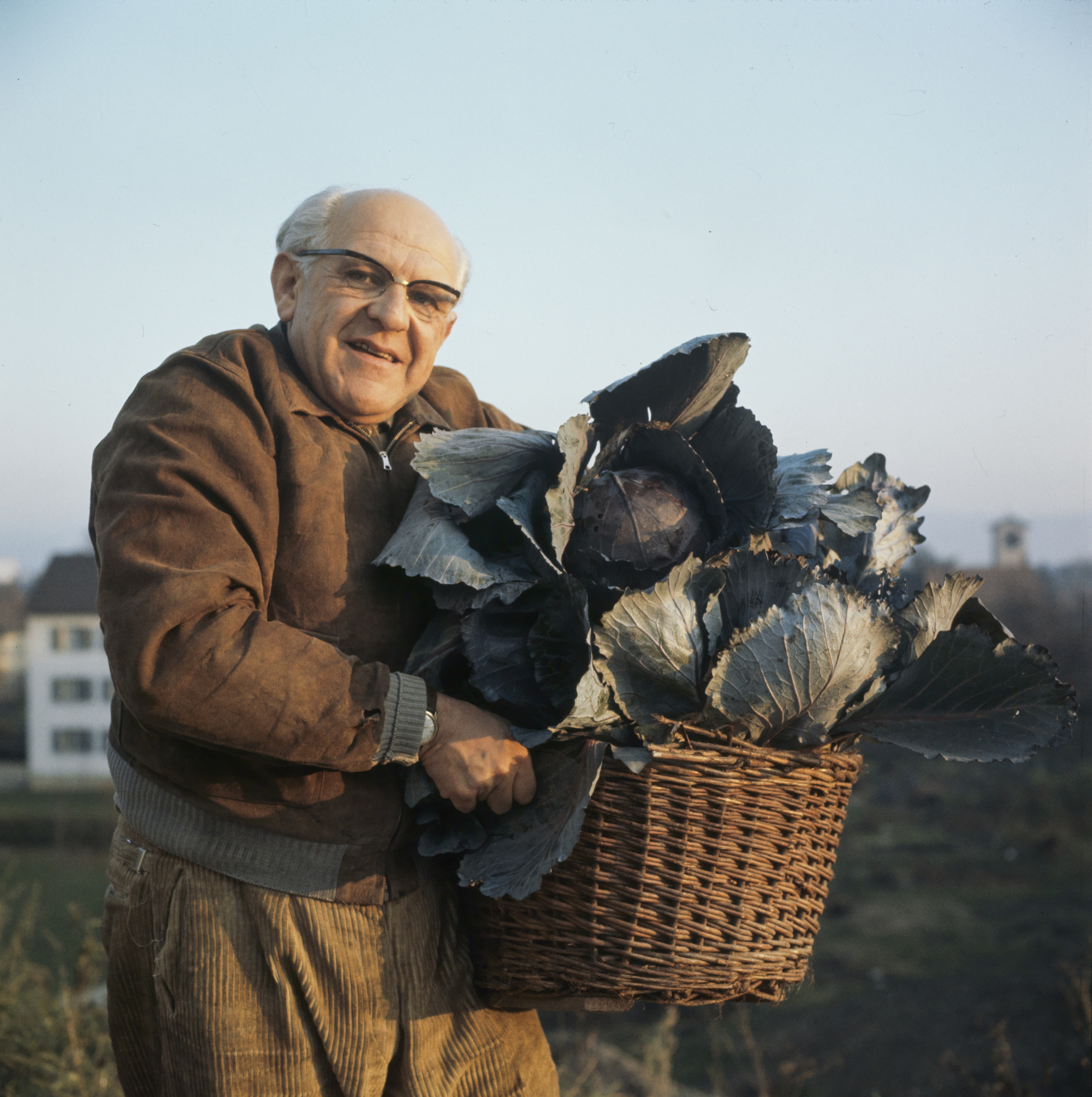 Alfred Rasser, Swiss comedian and member of parliament